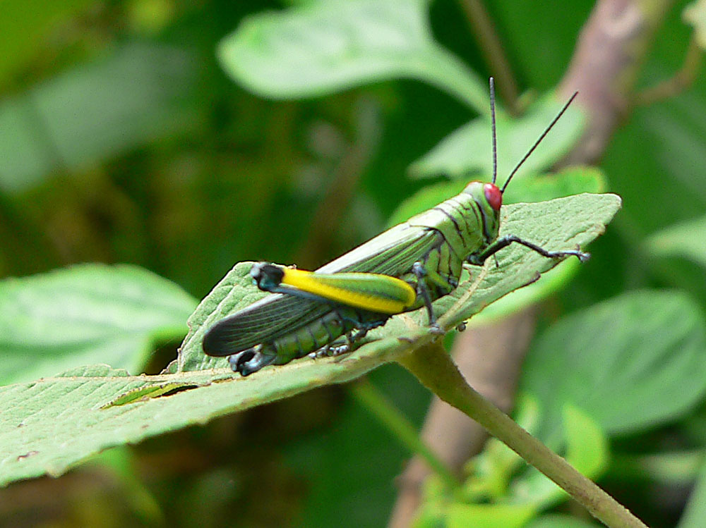 Female of Eupropacris coerulea photographed on 10/06/05 by Christiaan Kooyman in the rain forest near Awae in Cameroon.